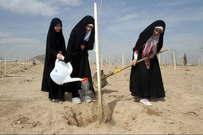 Tree planting by people of Mashhad in Arbor Day.